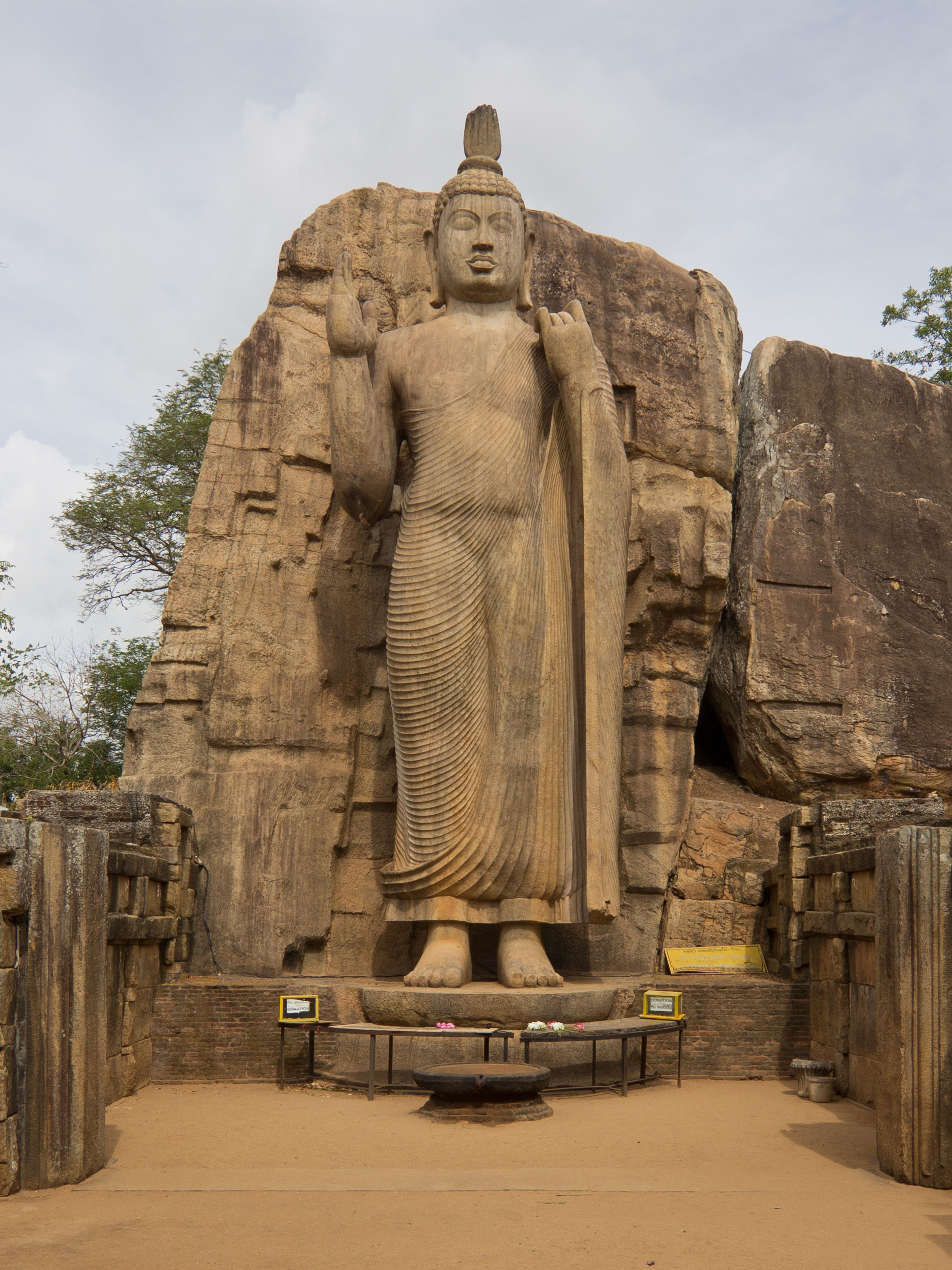 Avukana Buddha statue, Sri Lanka. සිංහල: අවුකන බුදු පිළිමය, ශ්‍රී ලංකාව.